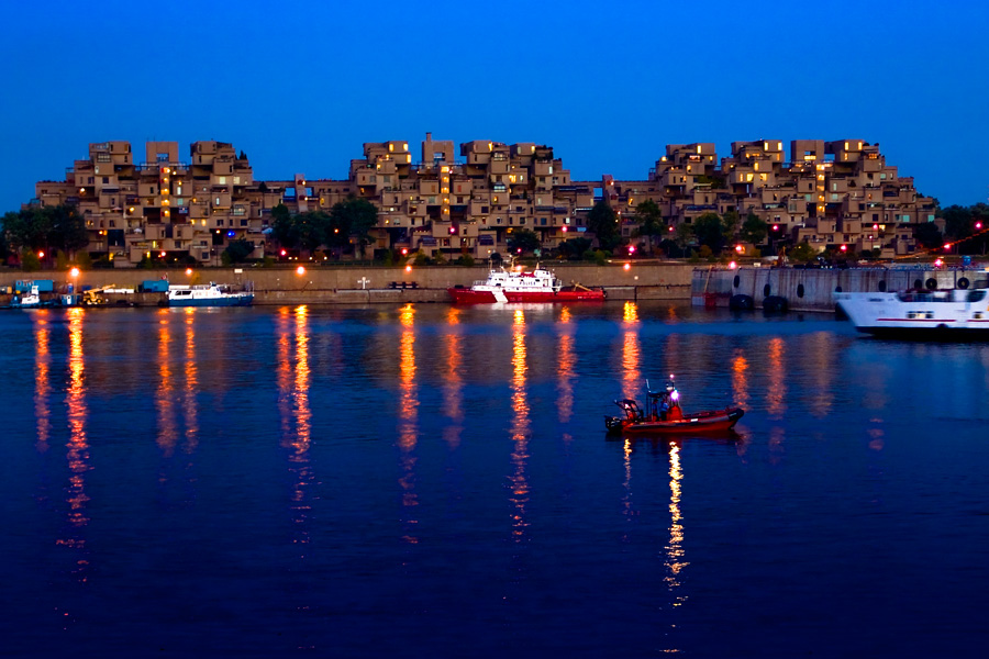 Habitat 67 at sunset